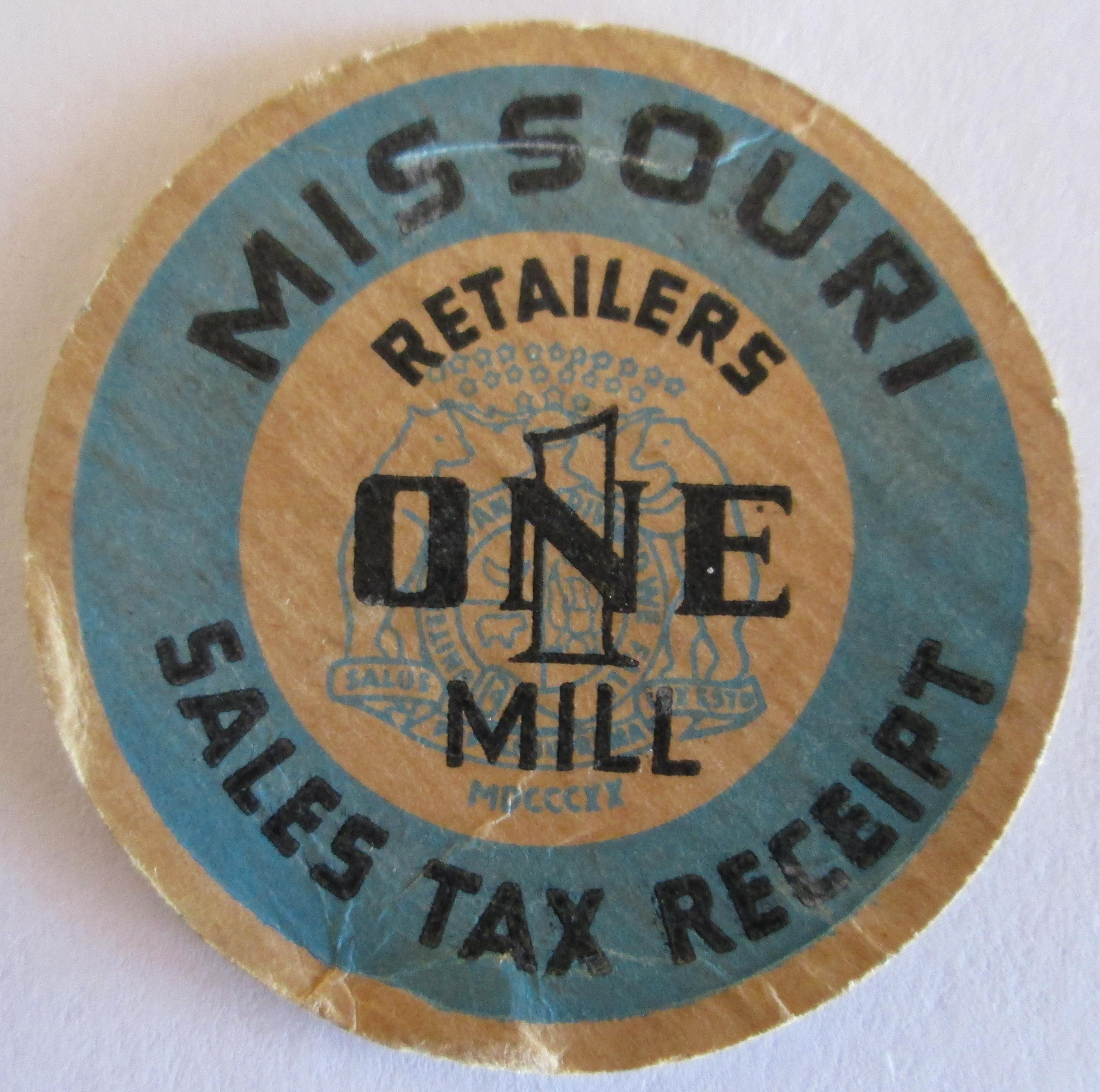 Cardboard 1 mill tax token from Missouri. The other side of the token is blank.